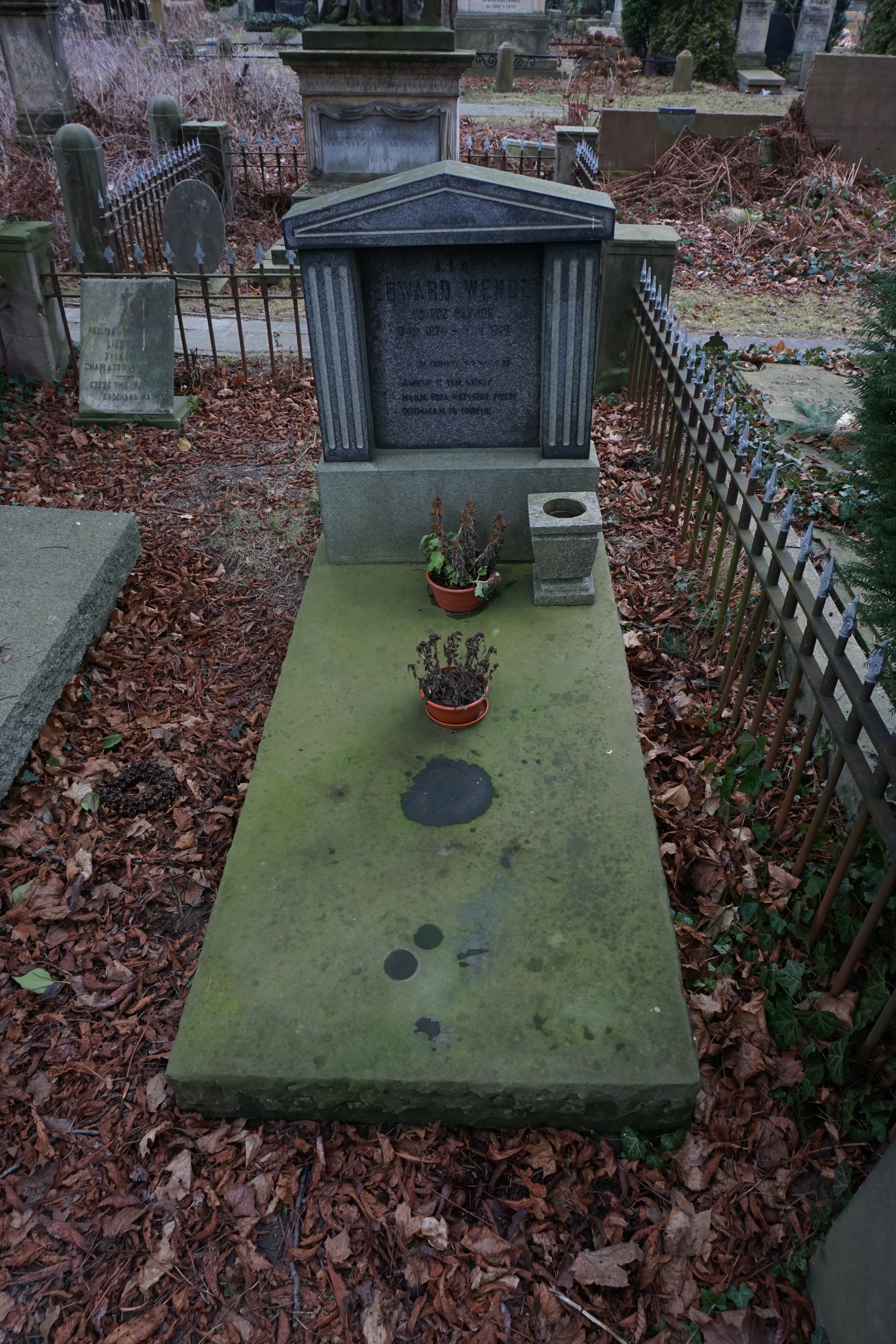 The grave of Edward Wend at the Evangelical-Augsburg Cemetery in Warsaw (avenue 24, grave 20)